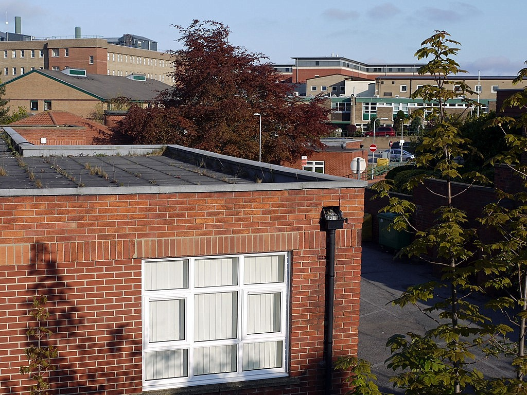 Queen Elizabeth Hospital from Queen Elizabeth Avenue